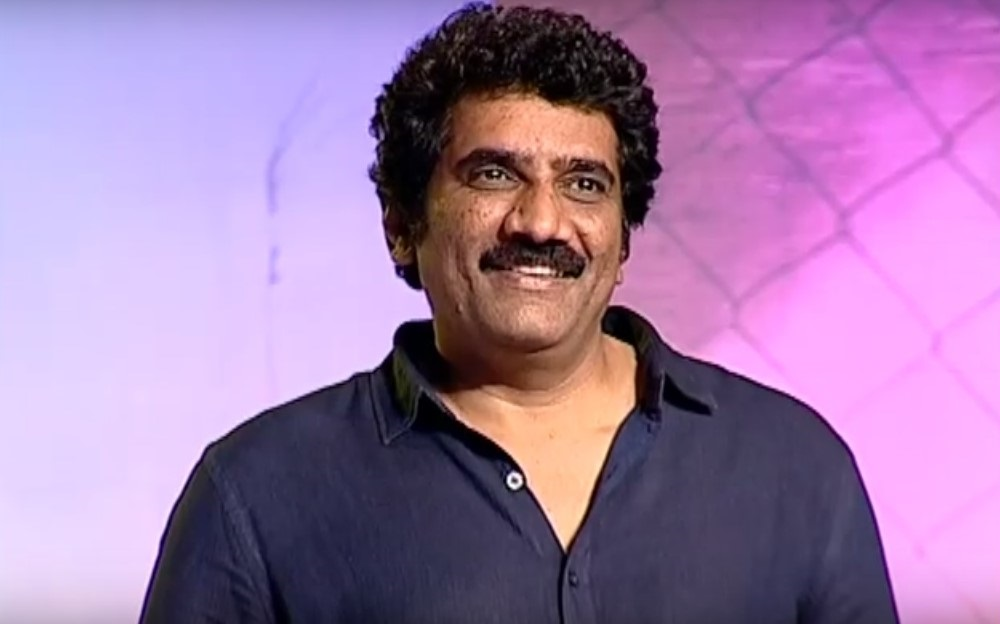 Indian actor Rao Ramesh at the success meet of the Telugu-language film Mukunda in December 2014